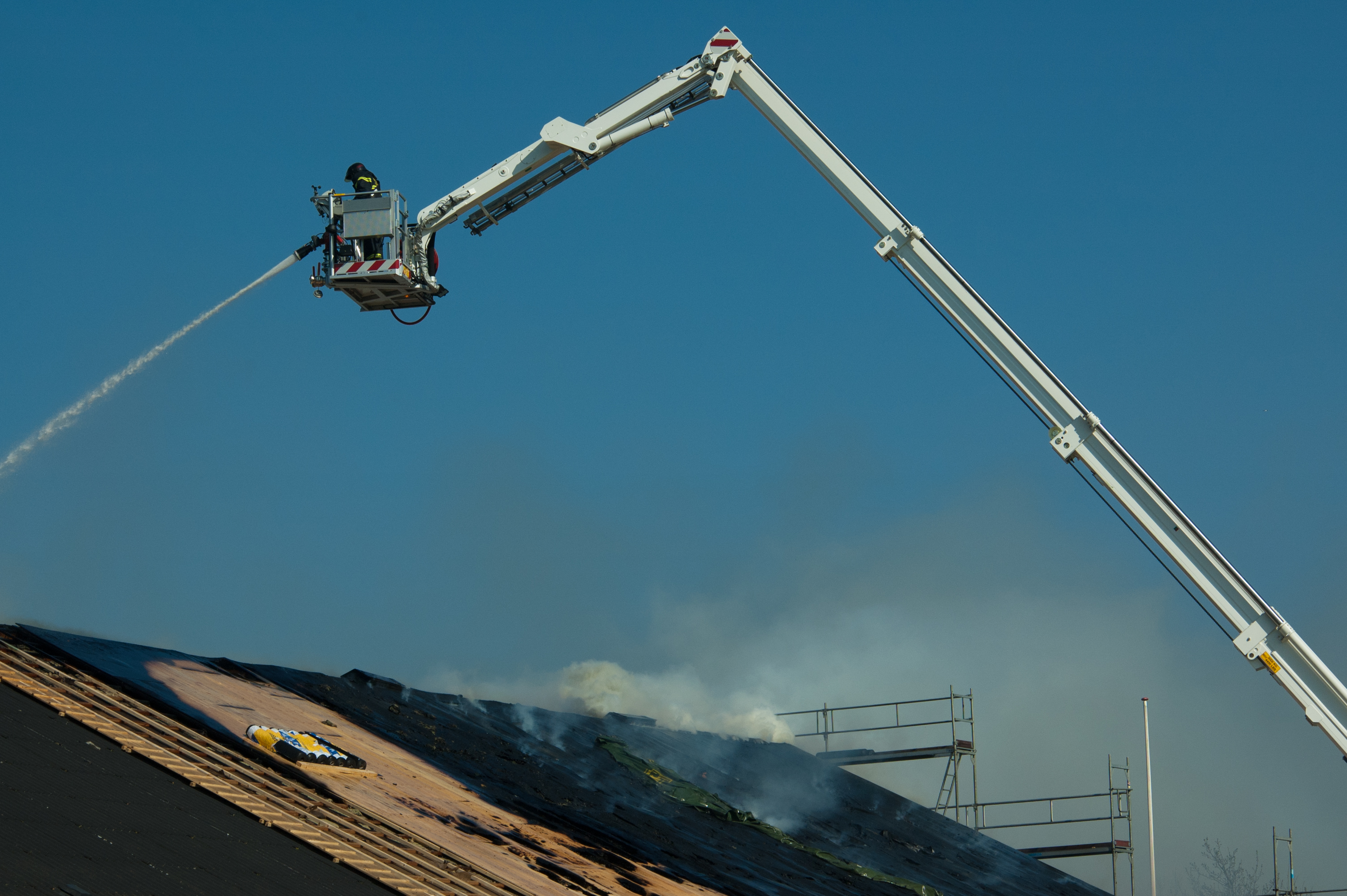 Firefighters from Frederikshavn Fire Department in a Bronto F32 RL skylift / rescue lift, during a fire in a sports arena.